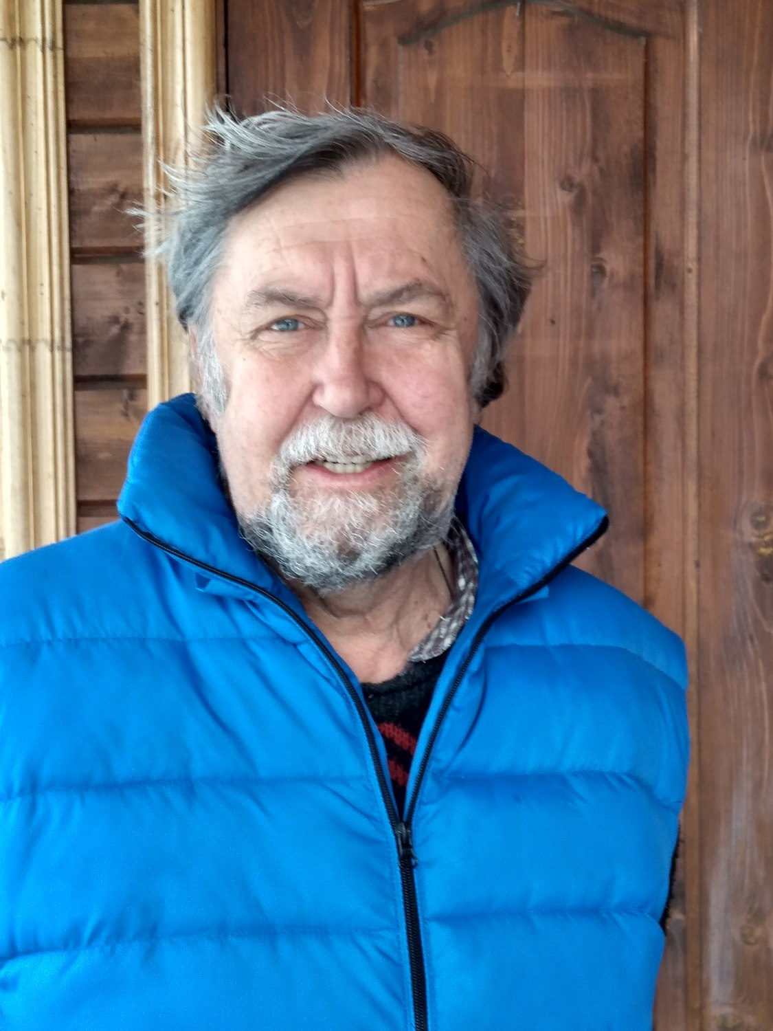 Забелин, Святослав Игоревич - эколог и общественный деятель.